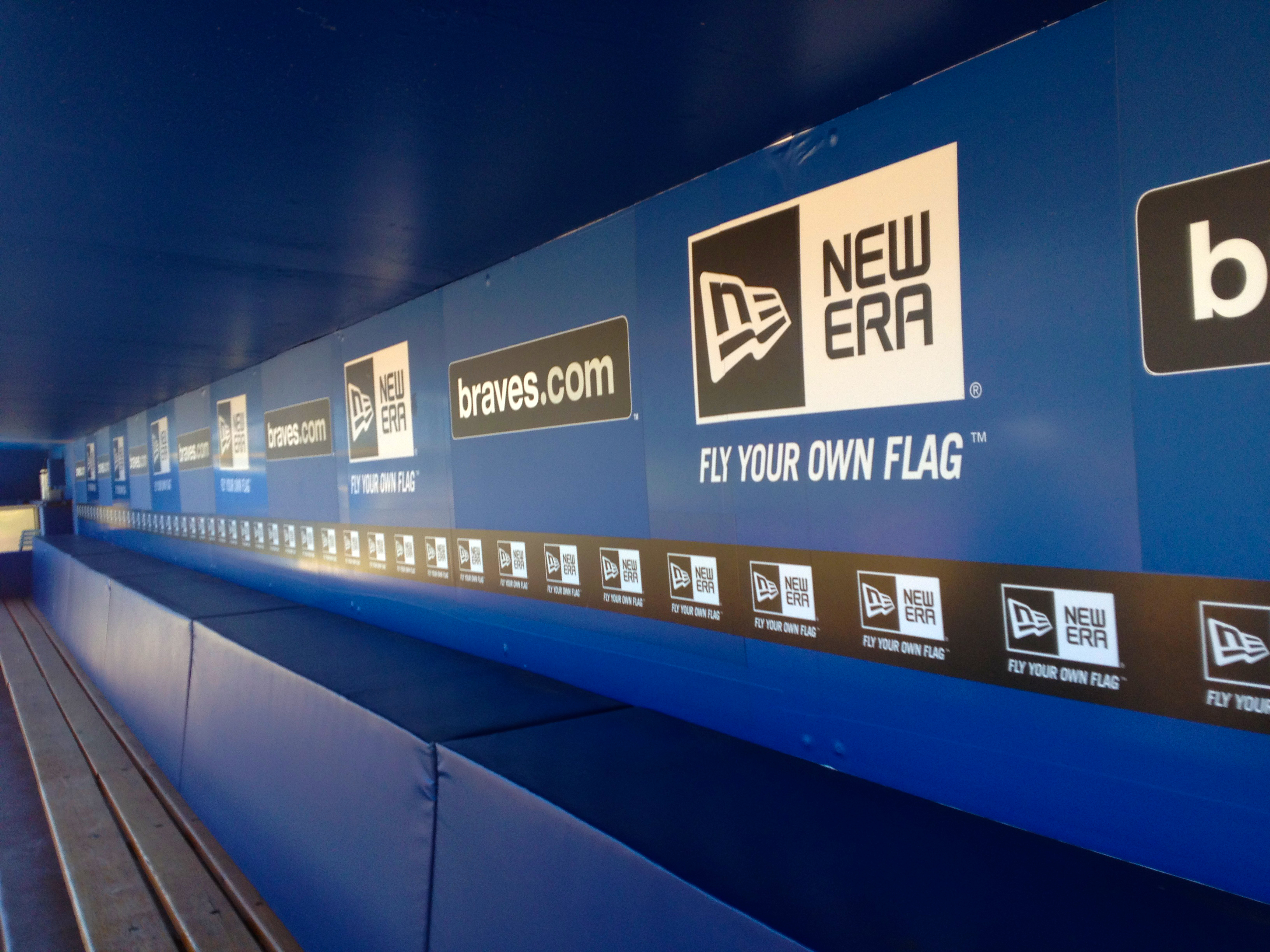 A picture of the Atlanta Braves' dugout at Turner Field I took during a tour of the stadium in June 2012.